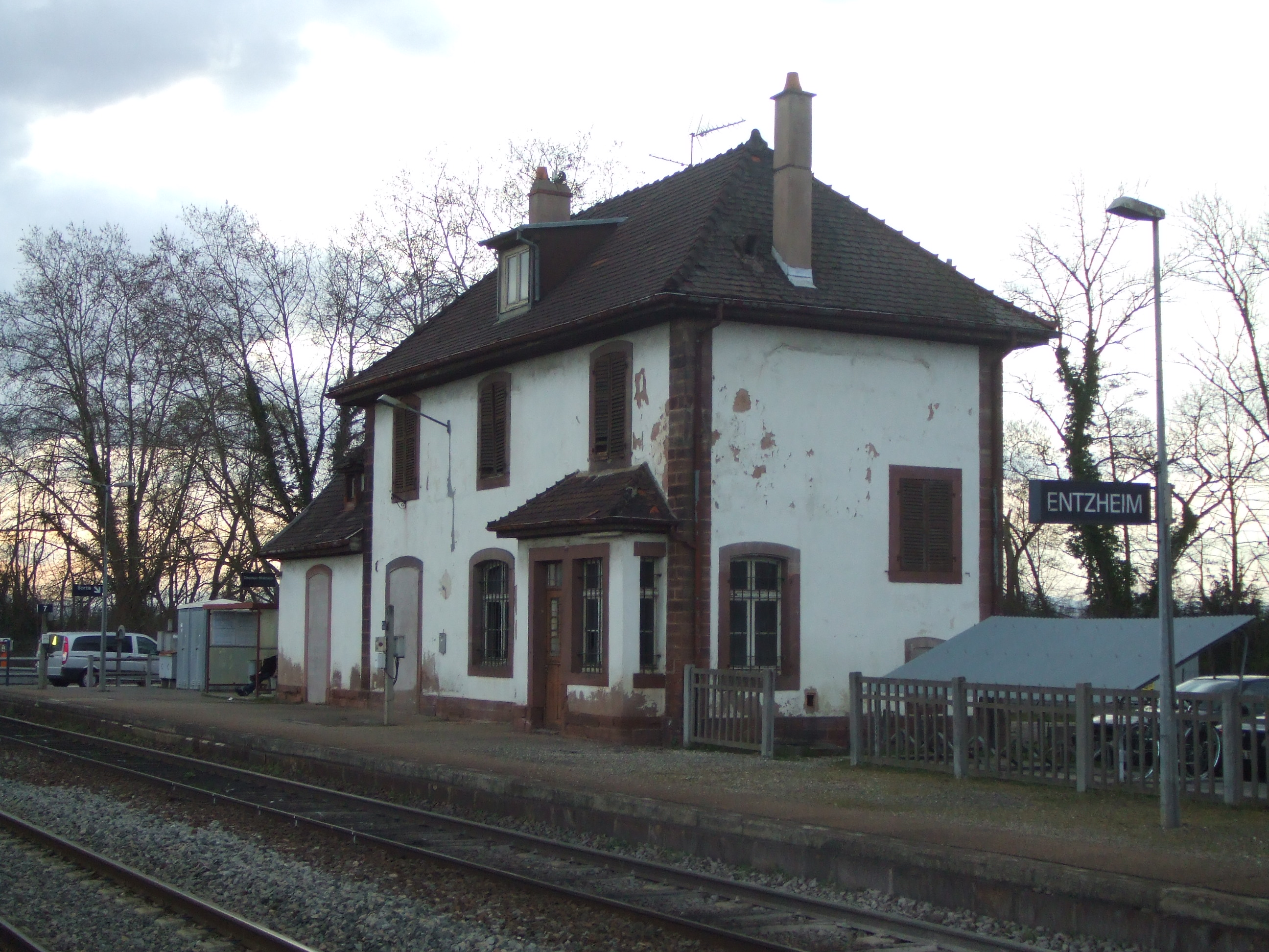 Entzheim (Strasbourg) railway station, 03/07.